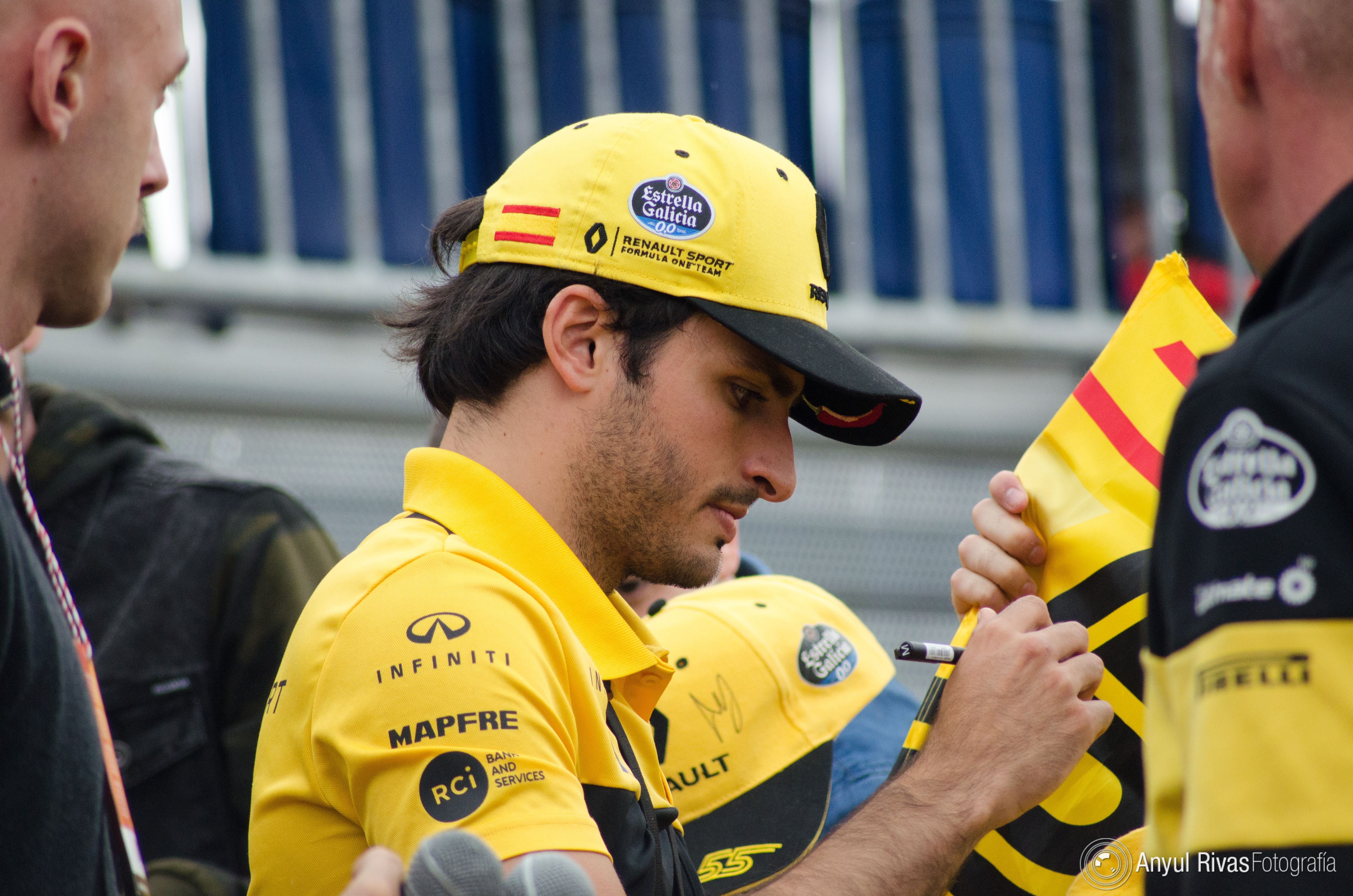 24h - Circuit Catalunya - Montmeló